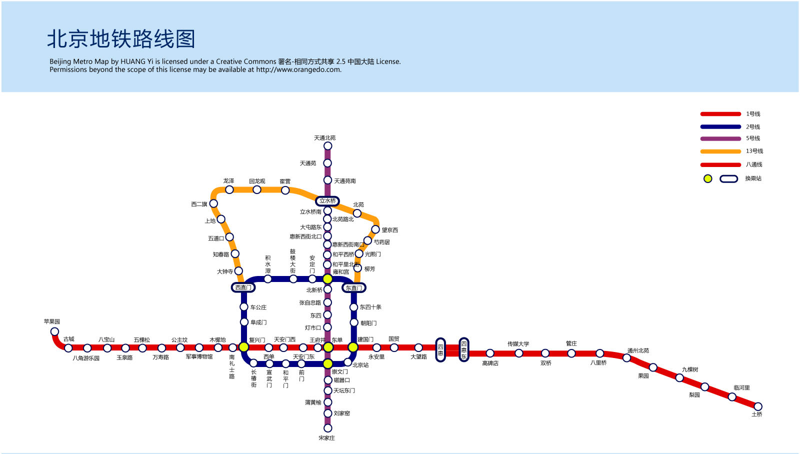 北京地鐵線路圖 Beijing Metro Map (as of 2007)